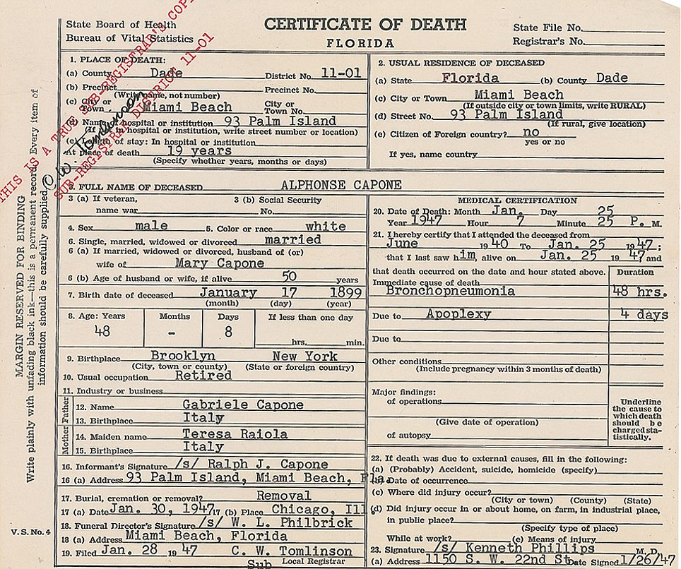 Death certificate for mobster Al Capone (January 17, 1899 - January 25, 1947)